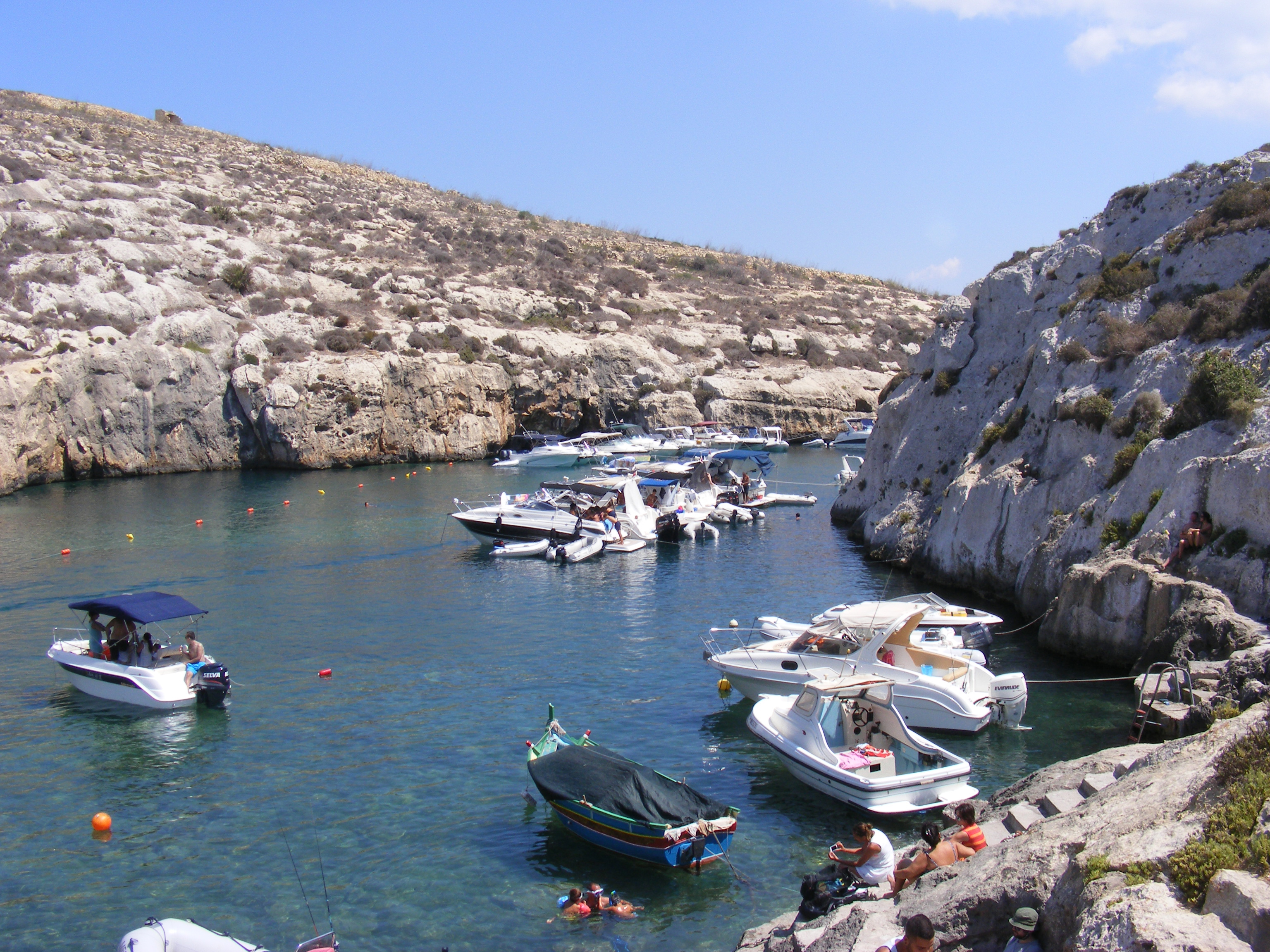 Summer weekend at Mgarr Ix Xini 2016